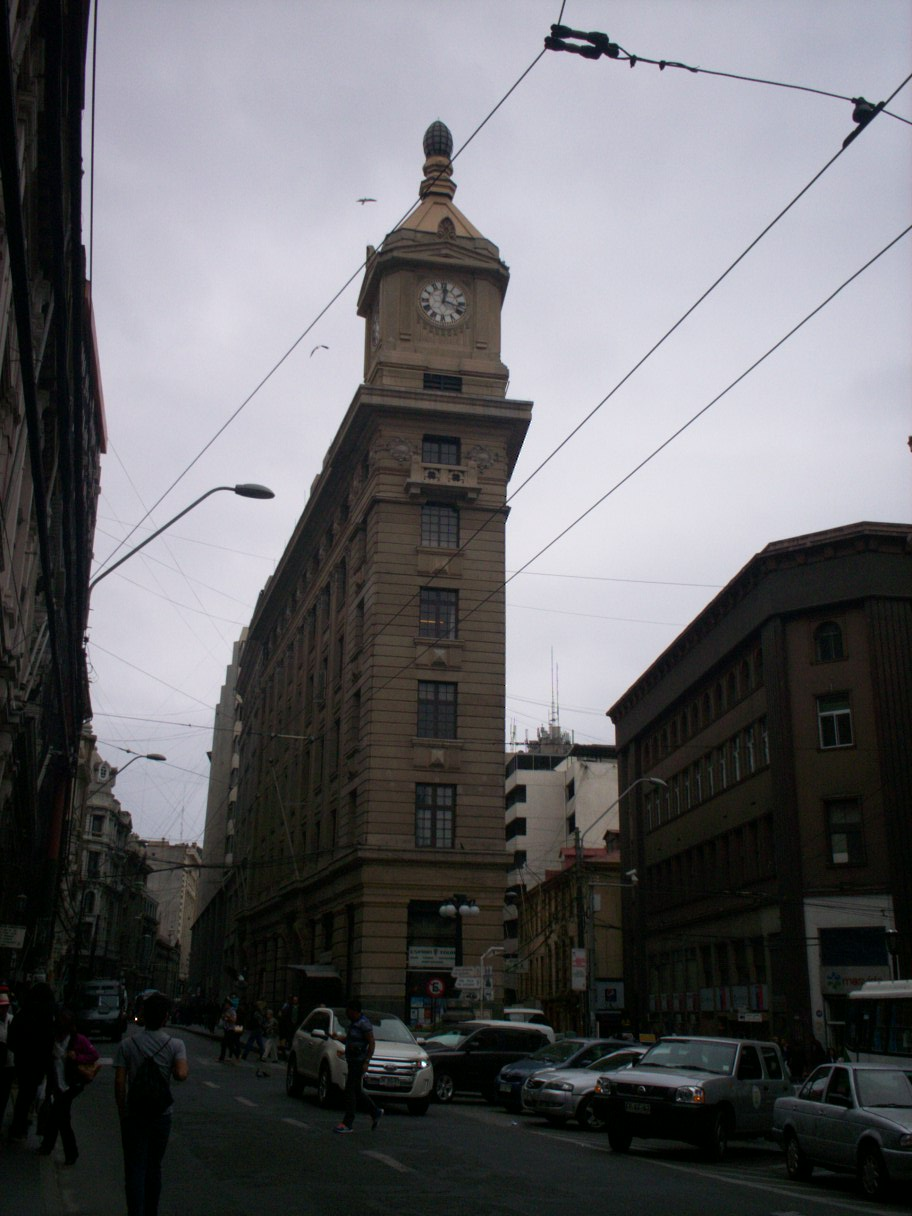 Turri Clocktower in Valparaiso city (Chile)